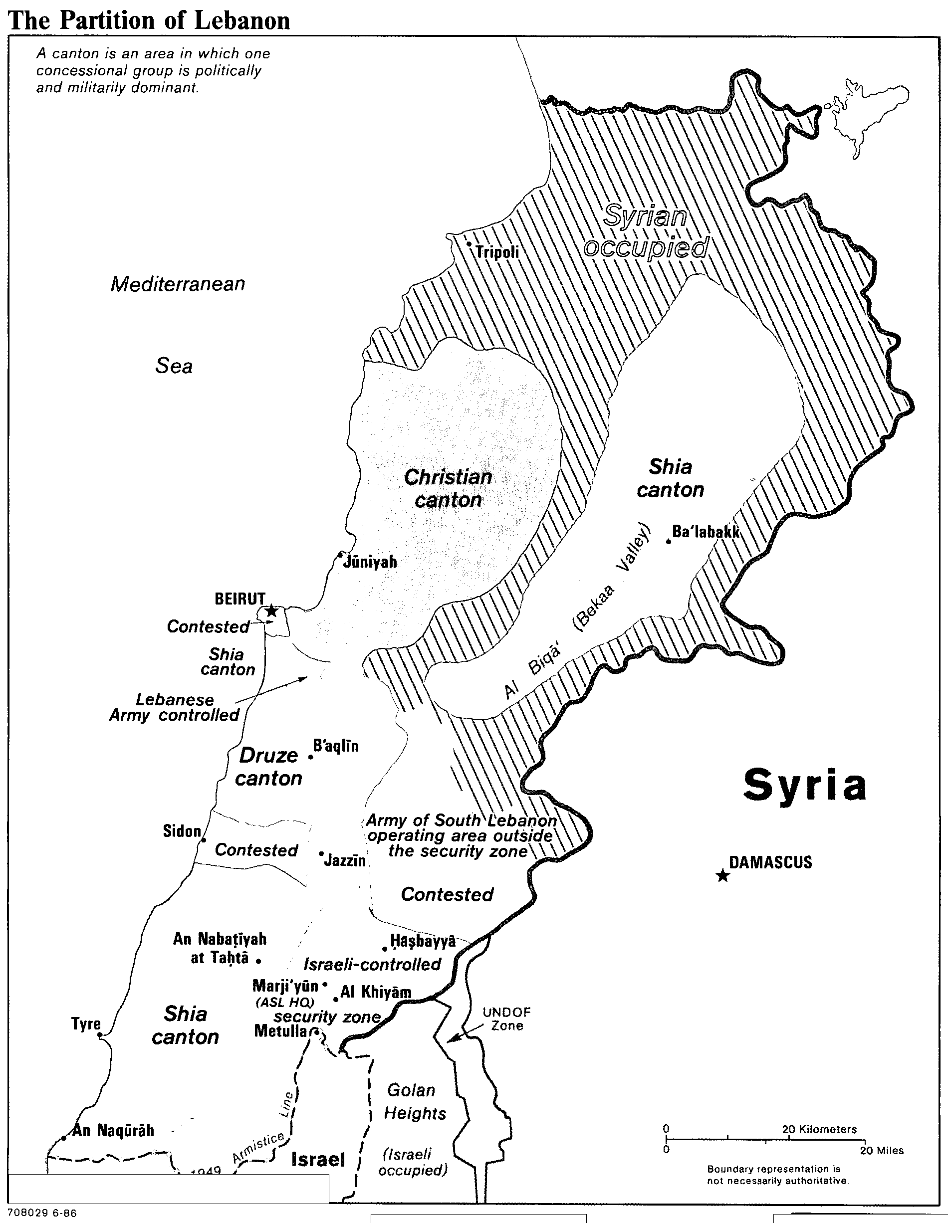 Map of Lebanon by areas where concessional groups are politically and military dominant, 4 August 1986.